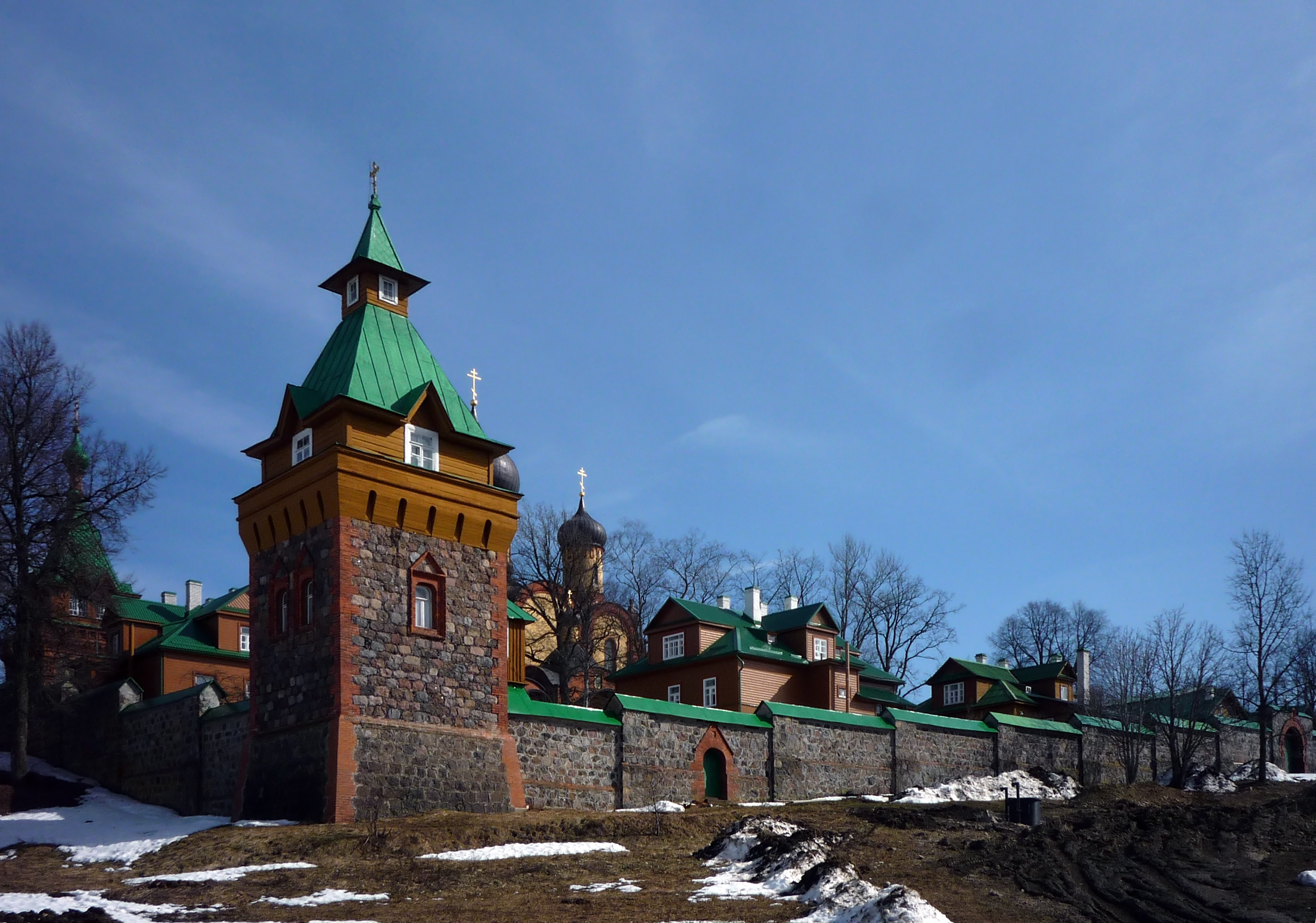 Pühtitsa Convent in Estonia.